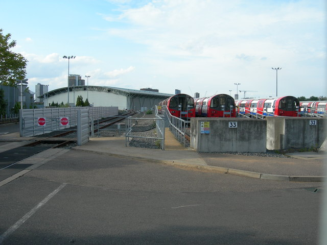 Jubilee Line Depot, West Ham This depot is on Abbey Road, E15. It services the Jubilee Line which runs nearby between Stratford and West Ham stations.